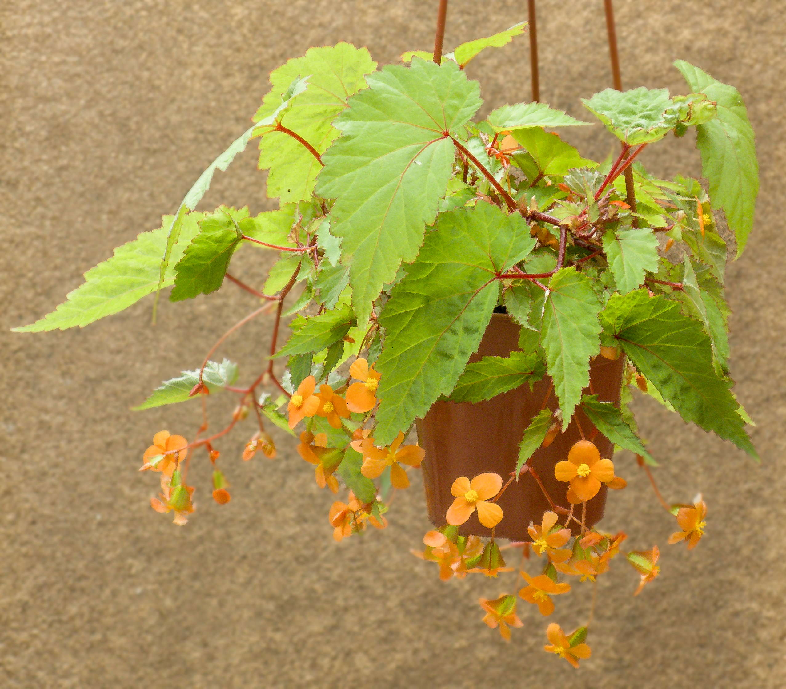 Begonia sutherlandii in cultivation